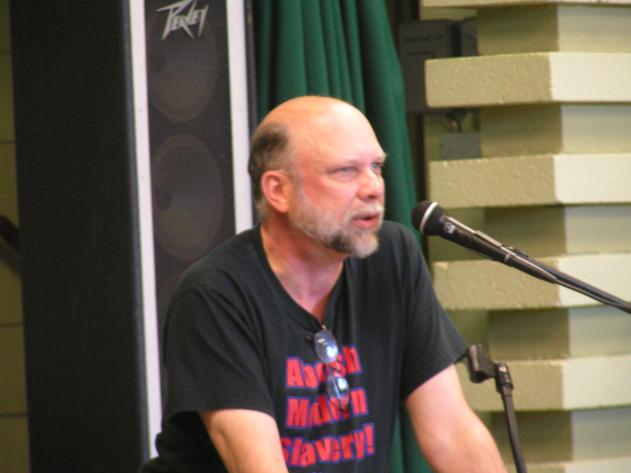 Jason McQuinn speaking at the 2010 San Francisco Anarchist Bookfair.